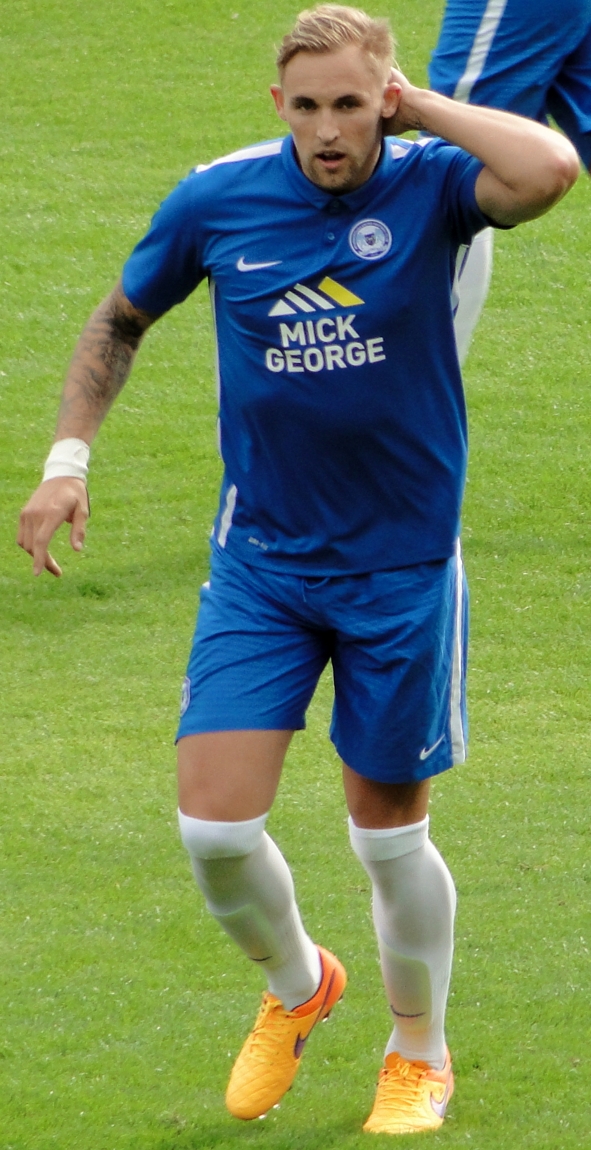 Peterborough United player, Jack Collison playing in a friendly game against West Ham United at London Road, Peterborough